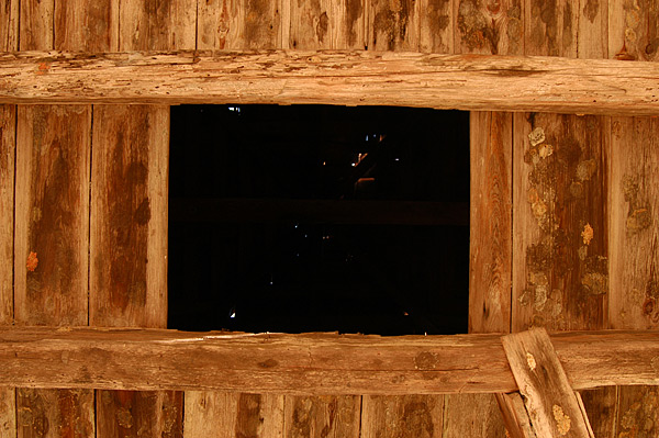 Photograph by Thomas Namey, Namey Design Studios.